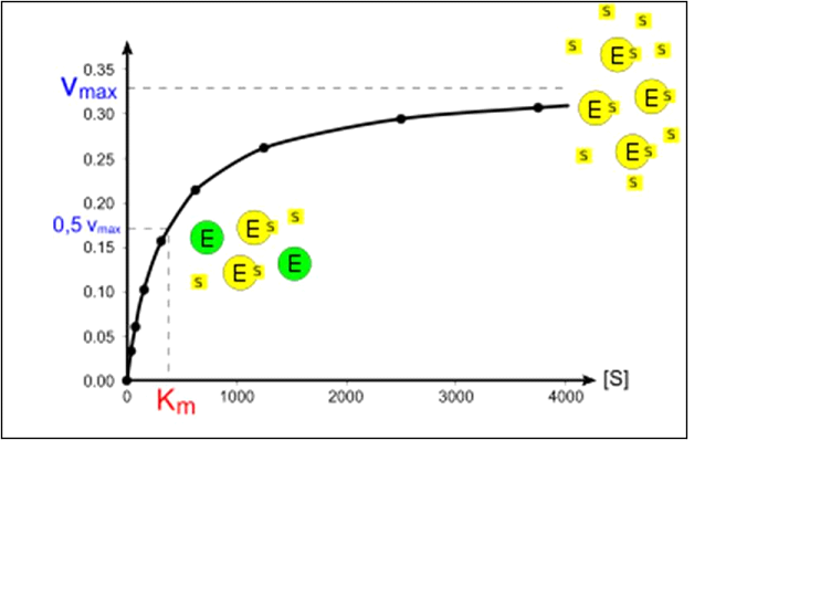 Michaelis-Menten cinetic